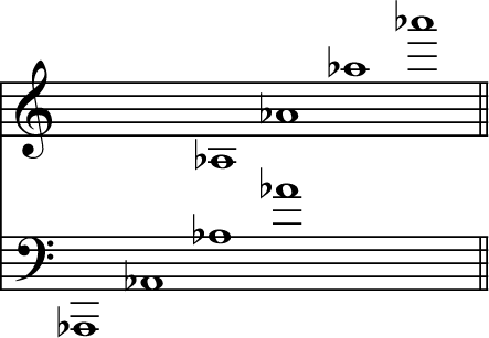 Notes, A Flat